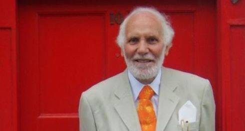 A picture of Jack Fitzsimons, writer, politician, architect, taken in Rinsgend.